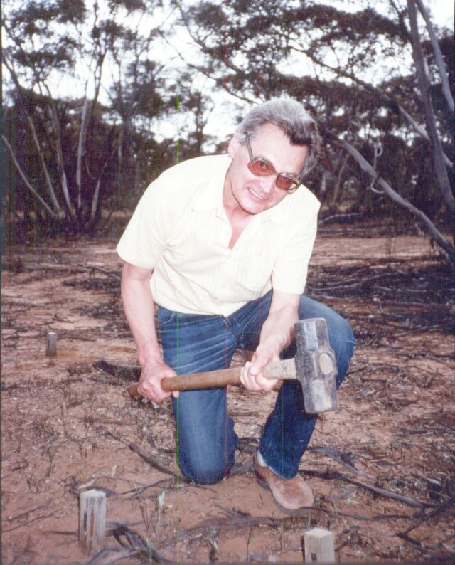 Jerzy Wazny (Australia, 1983)